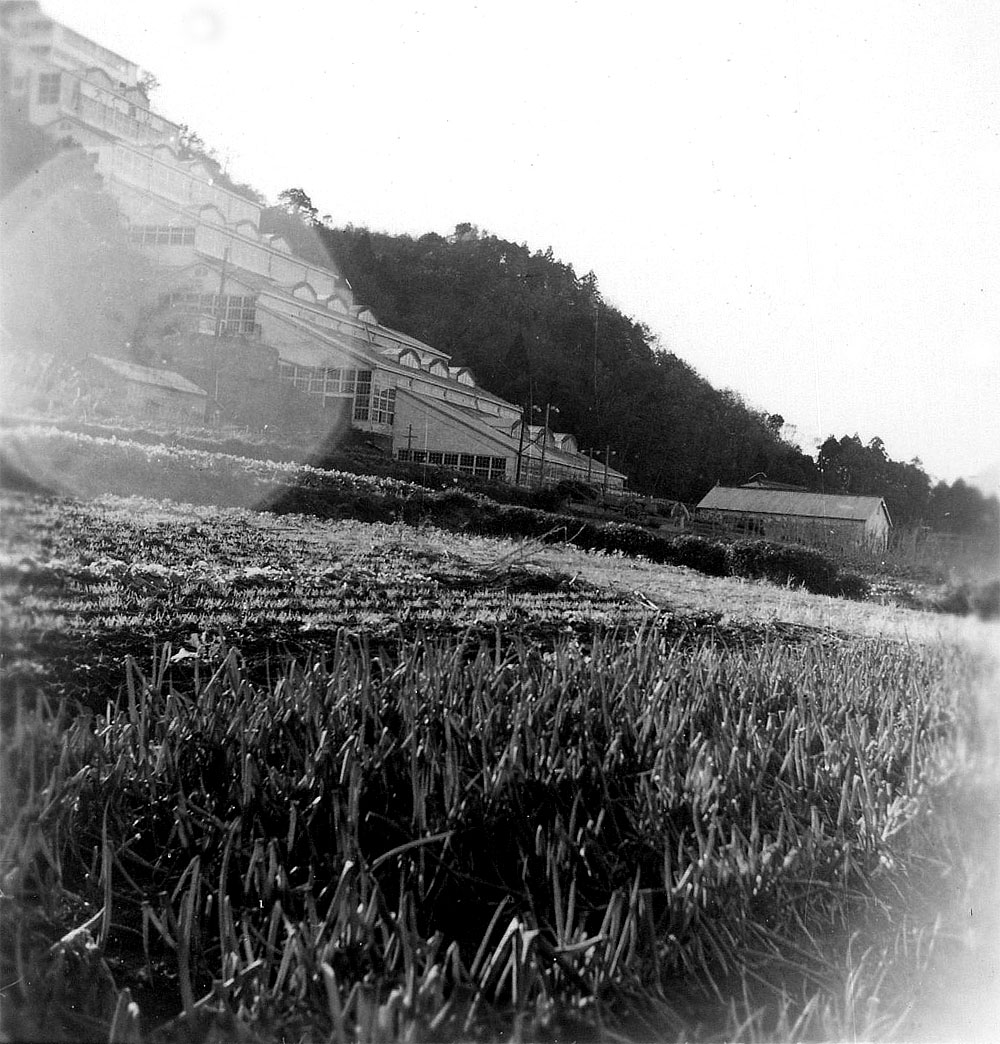 Ohito Mine in Izu, Shizuoka Prefecture, Japan.